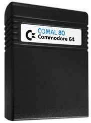 Cartridge COMAL-80 for Commodore 64